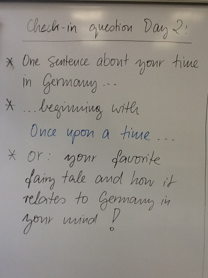 Summer school Berlin School of Economics 2013: Session on Scenario Planning, 2. Juli 2013